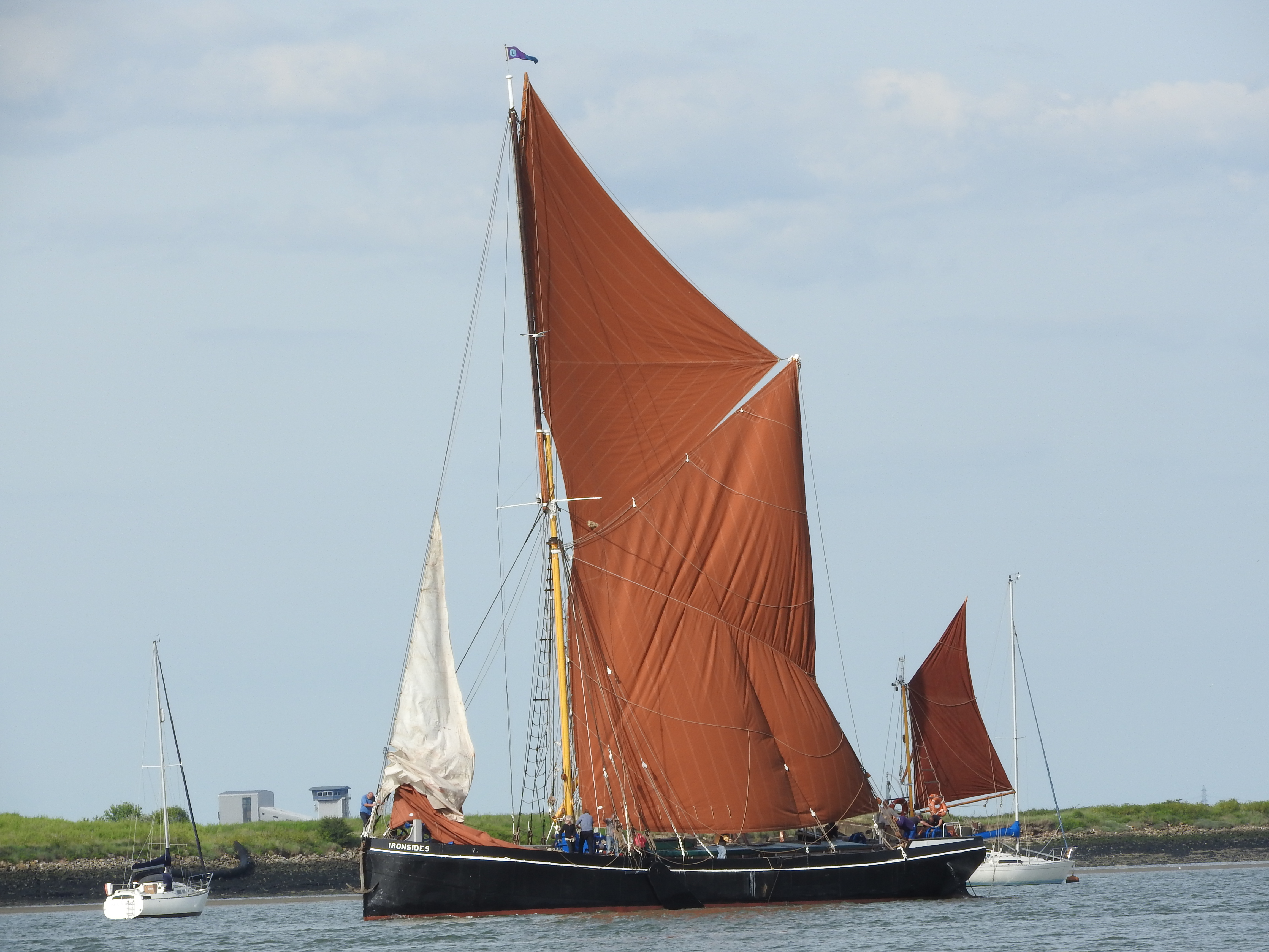 Barge competing in the 109th Medway Barge Sailing match, viewed from the shore at Gillingham Pier